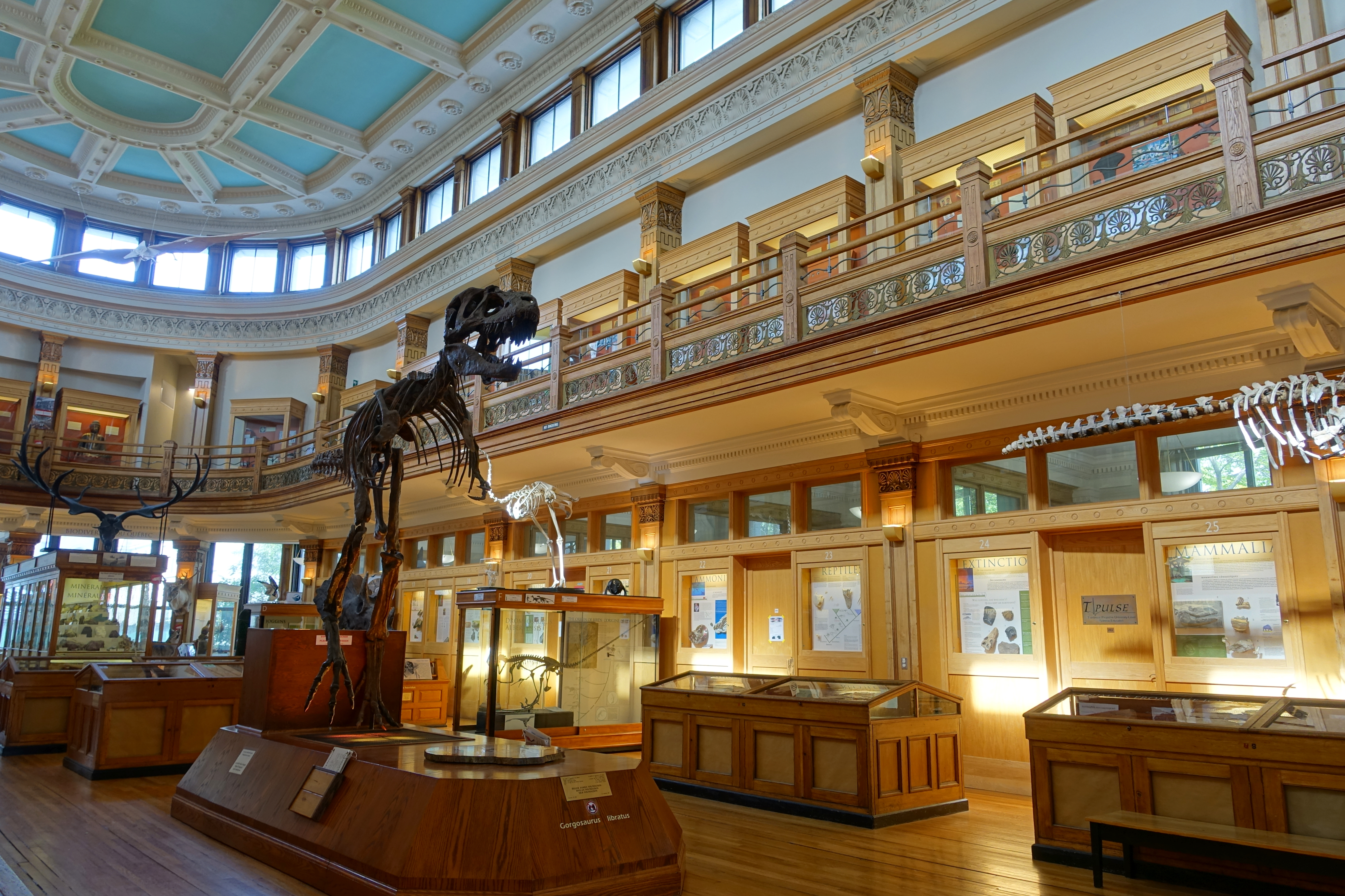 Interior view of the Redpath Museum, McGill University - Montreal, Quebec, Canada.